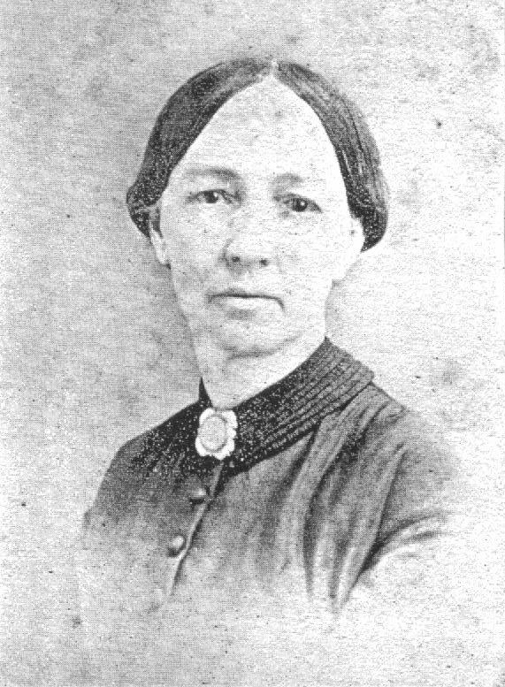 Mary Ann Williams (Mrs. Charles J. Williams)